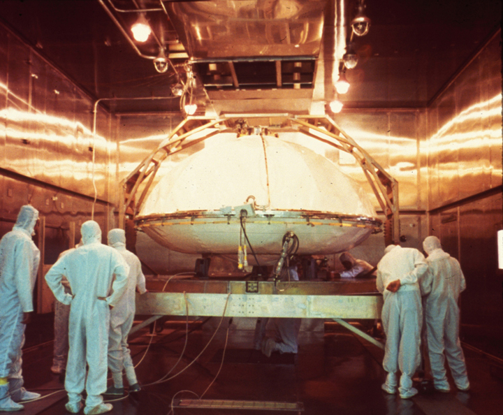 One of the Viking landers being prepared for dry heat sterilization.